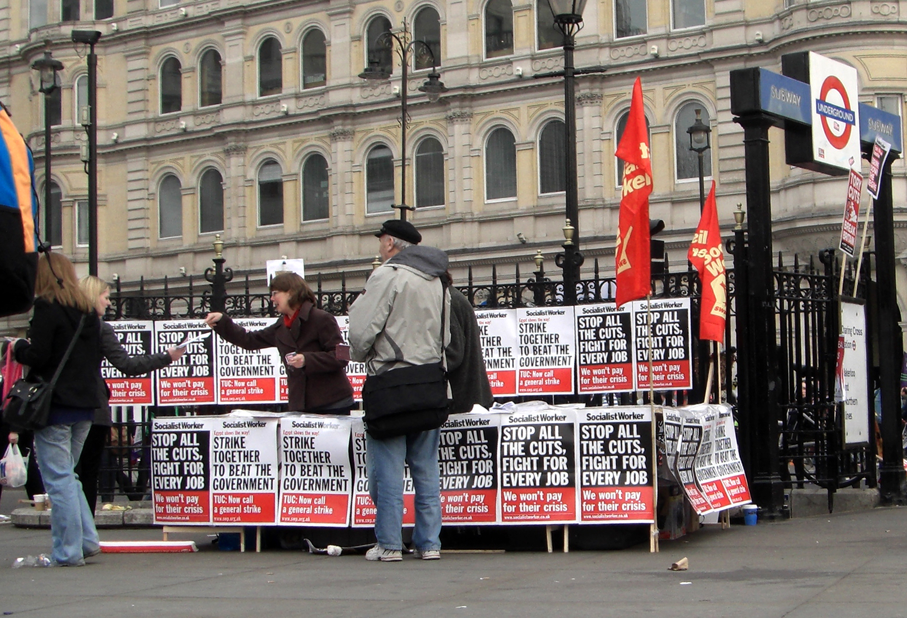 A stall run by the Socialist Worker's Party (UK) held in the southern part of Trafalgar Square, central London, during the 2011 anti-cuts protest in London.